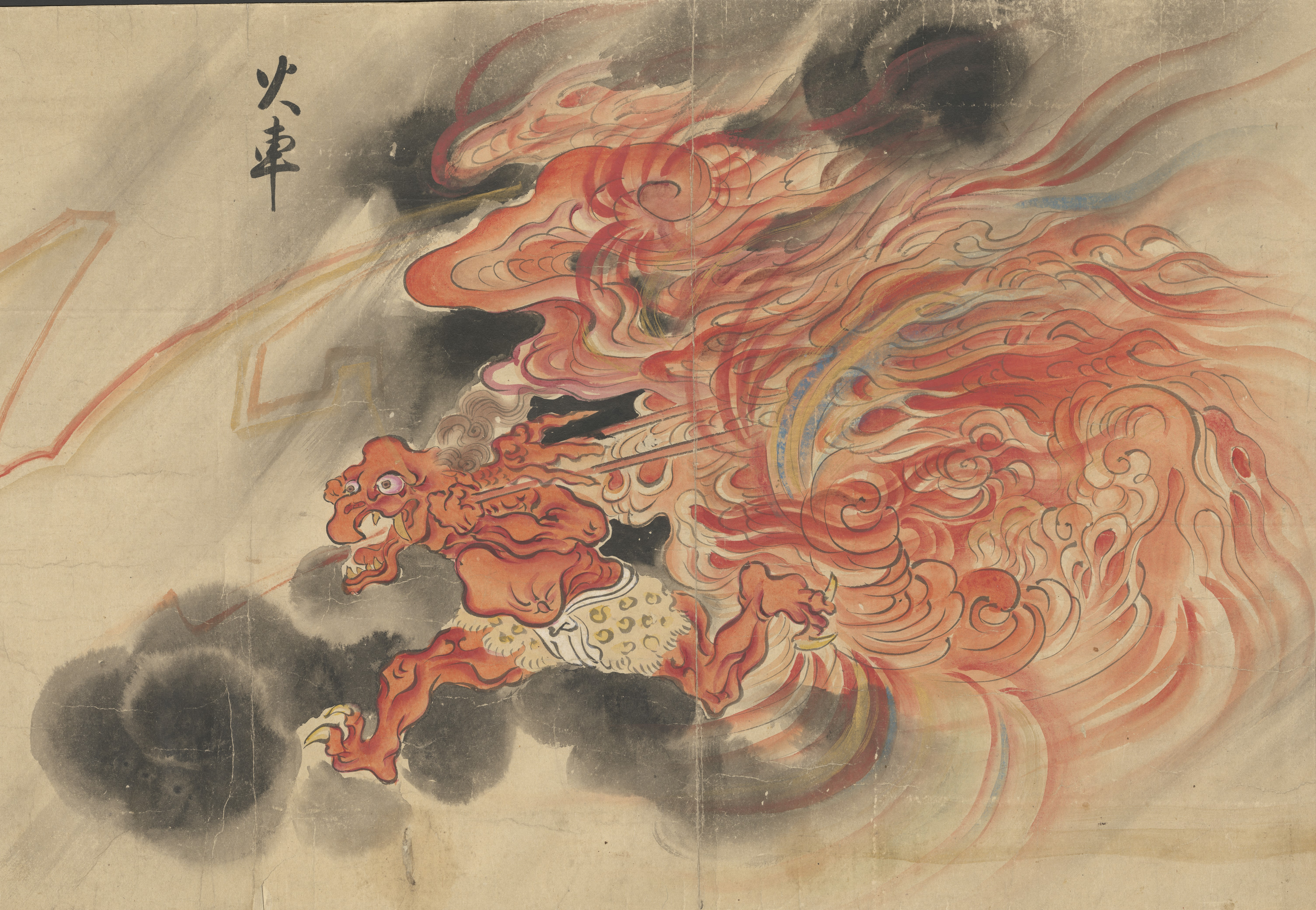 Kasha 火車 from Bakemono no e (化物之繪, c. 1700), Harry F. Bruning Collection of Japanese Books and Manuscripts, L. Tom Perry Special Collections, Harold B. Lee Library, Brigham Young University.